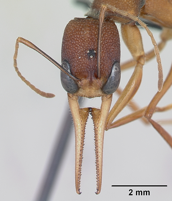 Head view of ant Harpegnathos saltator specimen casent0173582.